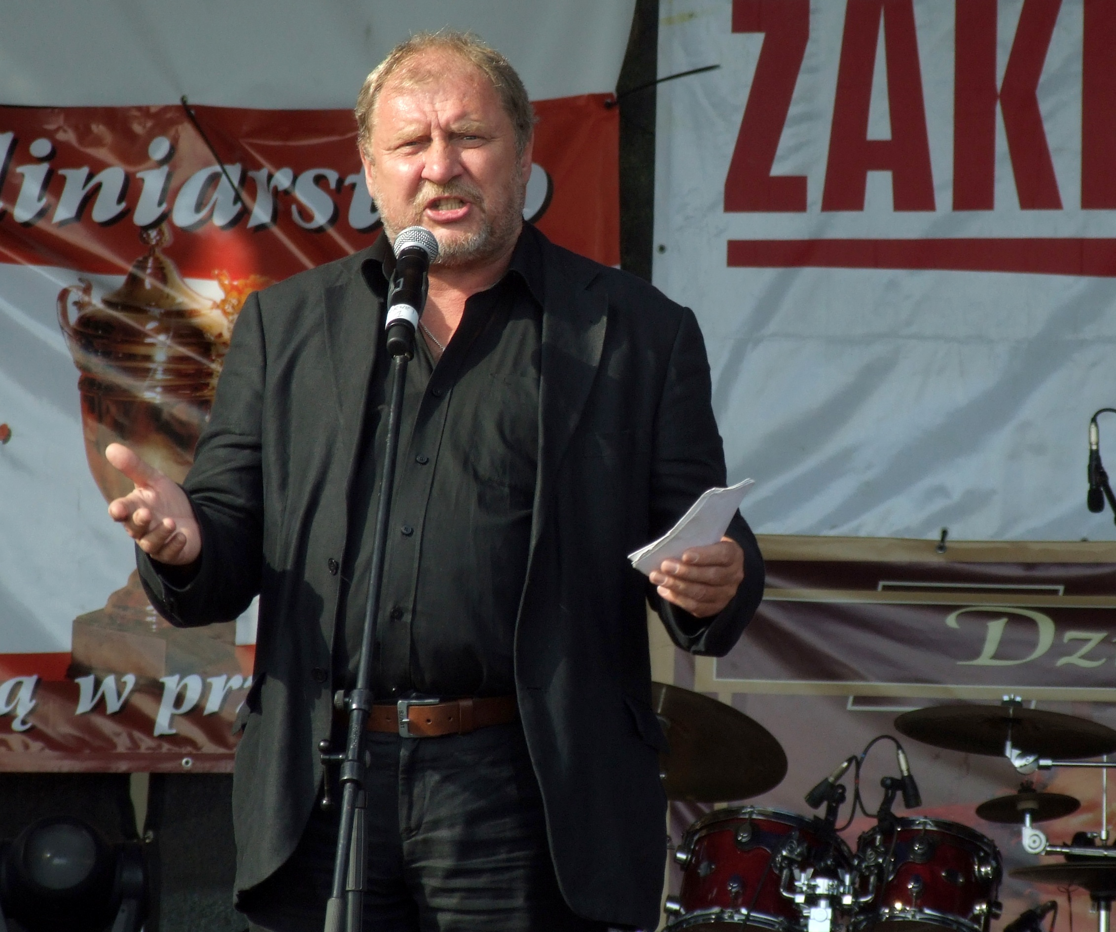 The Polish actor Andrzej Grabowski during his performance at "Pig Days" Festival at the village of Siedlec near Wolsztyn, Poland